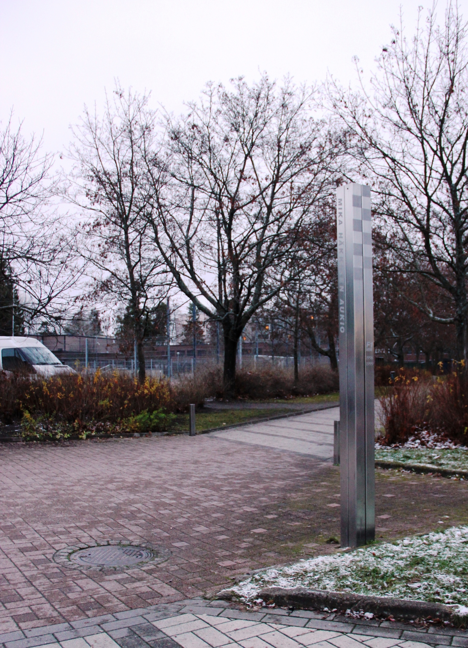 Mika Häkkinen square, Martinlaakso, Vantaa, Finland, November 2015